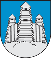 Coats of arms of the city of Saldus, Latvia.